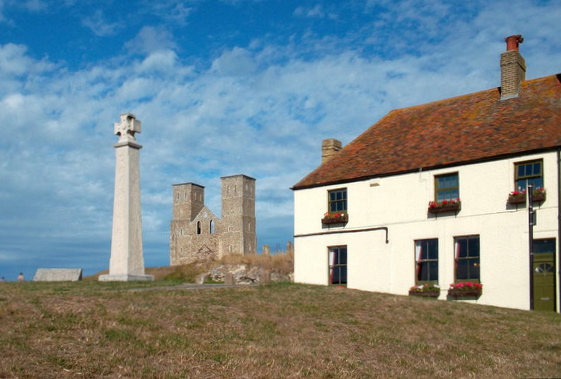 The twin towers of the ruined St Mary's church at Reculver, Kent, framed between the Millennium Cross of 2000 and the King Ethelbert Inn, built early in the 19th century